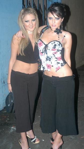 Mia Rose, Ava Rose at Video Team's Alexis Amore Party at Basque, February 4 2006